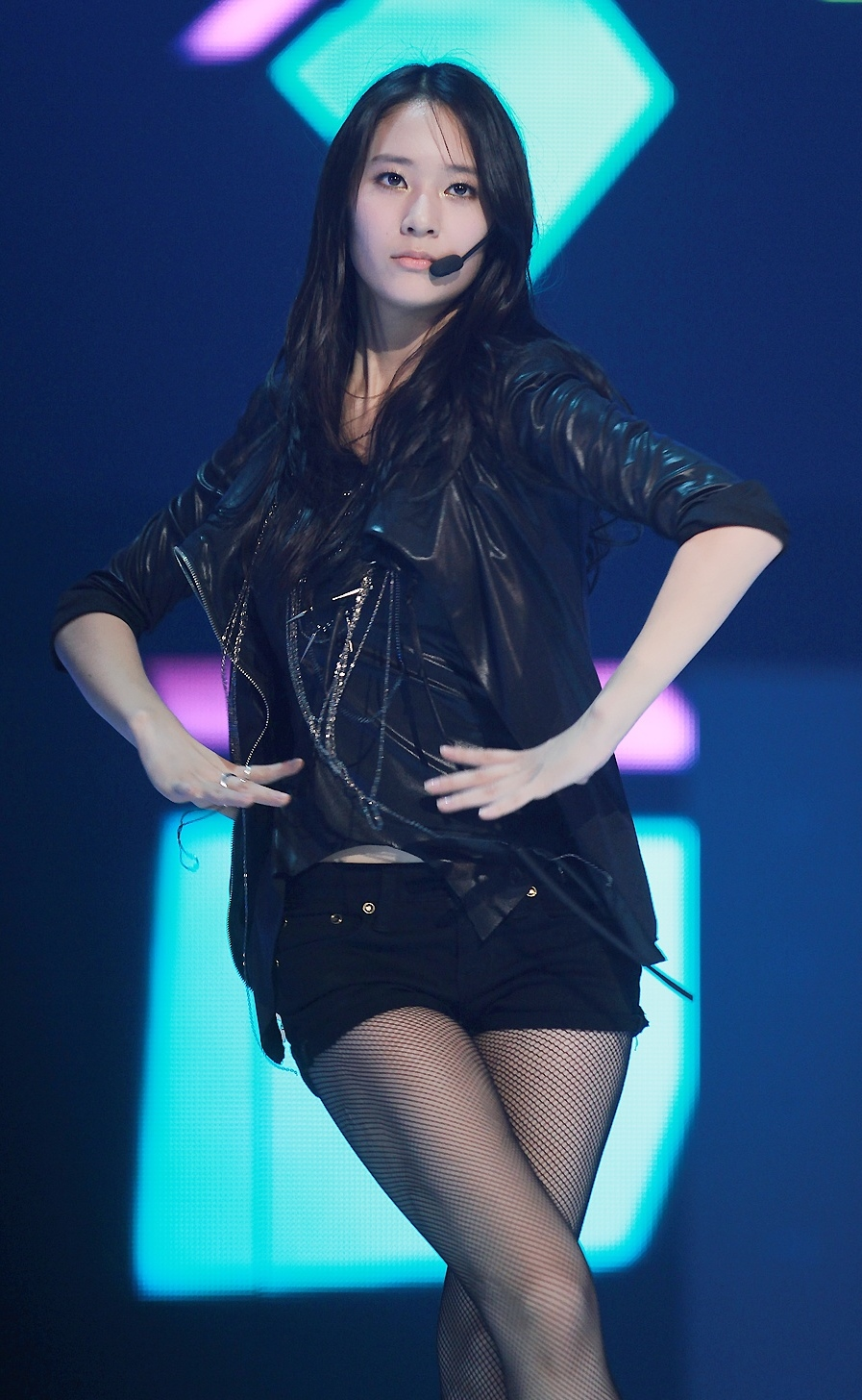 Krystal Jung at the 2010 KBS Gayo Daejun in December 30, 2010.